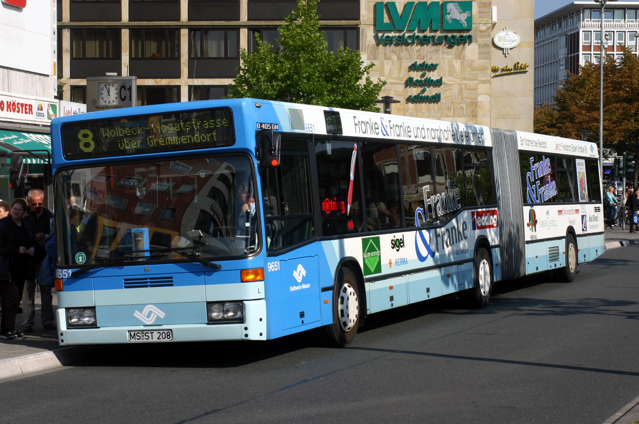 Mercedes-Benz O 405 GN2 bus (#9651, reg. MS-ST 208) in Münster, Germany. Built 1996, Stadtwerke Münster GmbH operator.